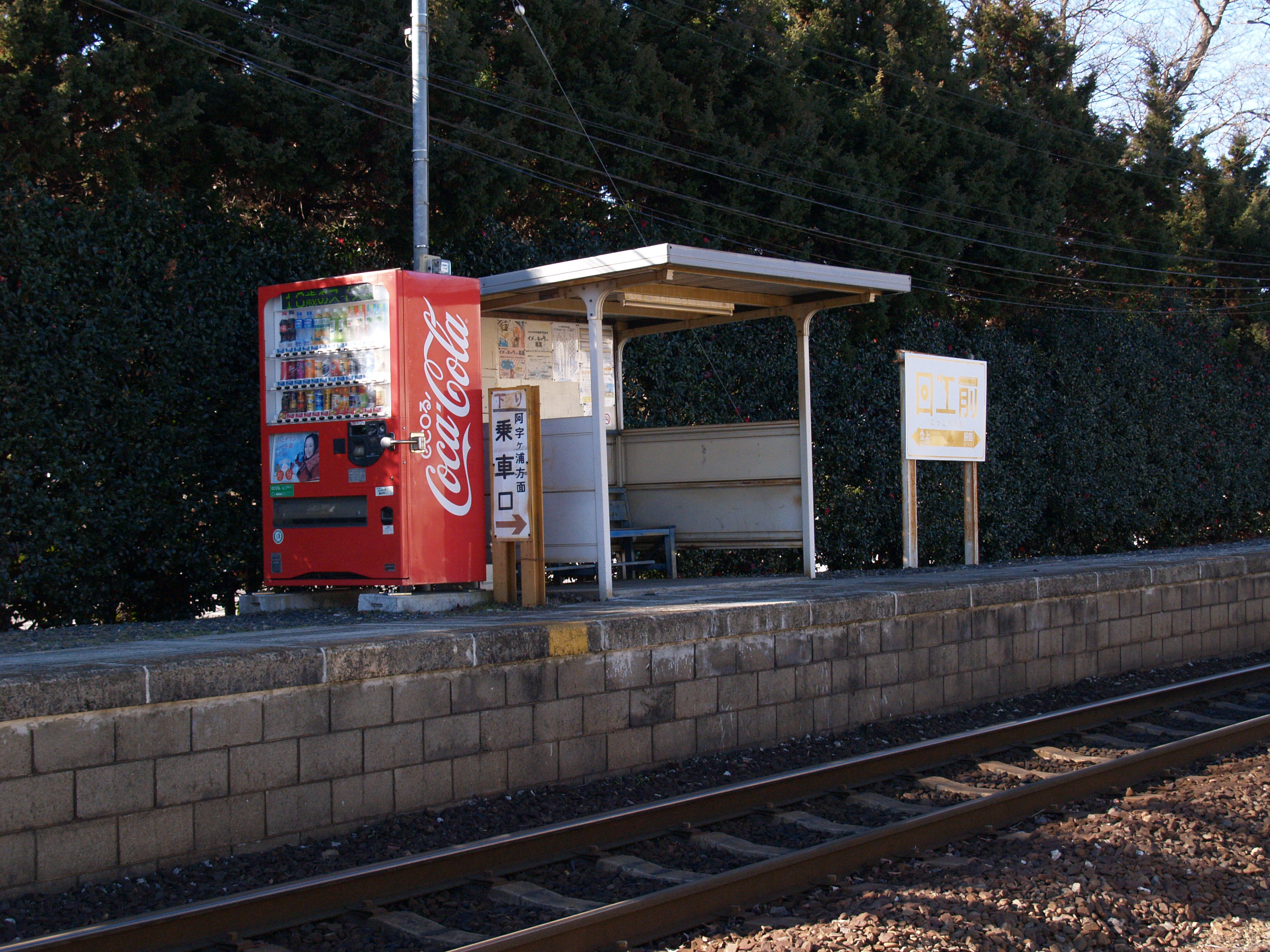 Platform of Nikkōmae Station